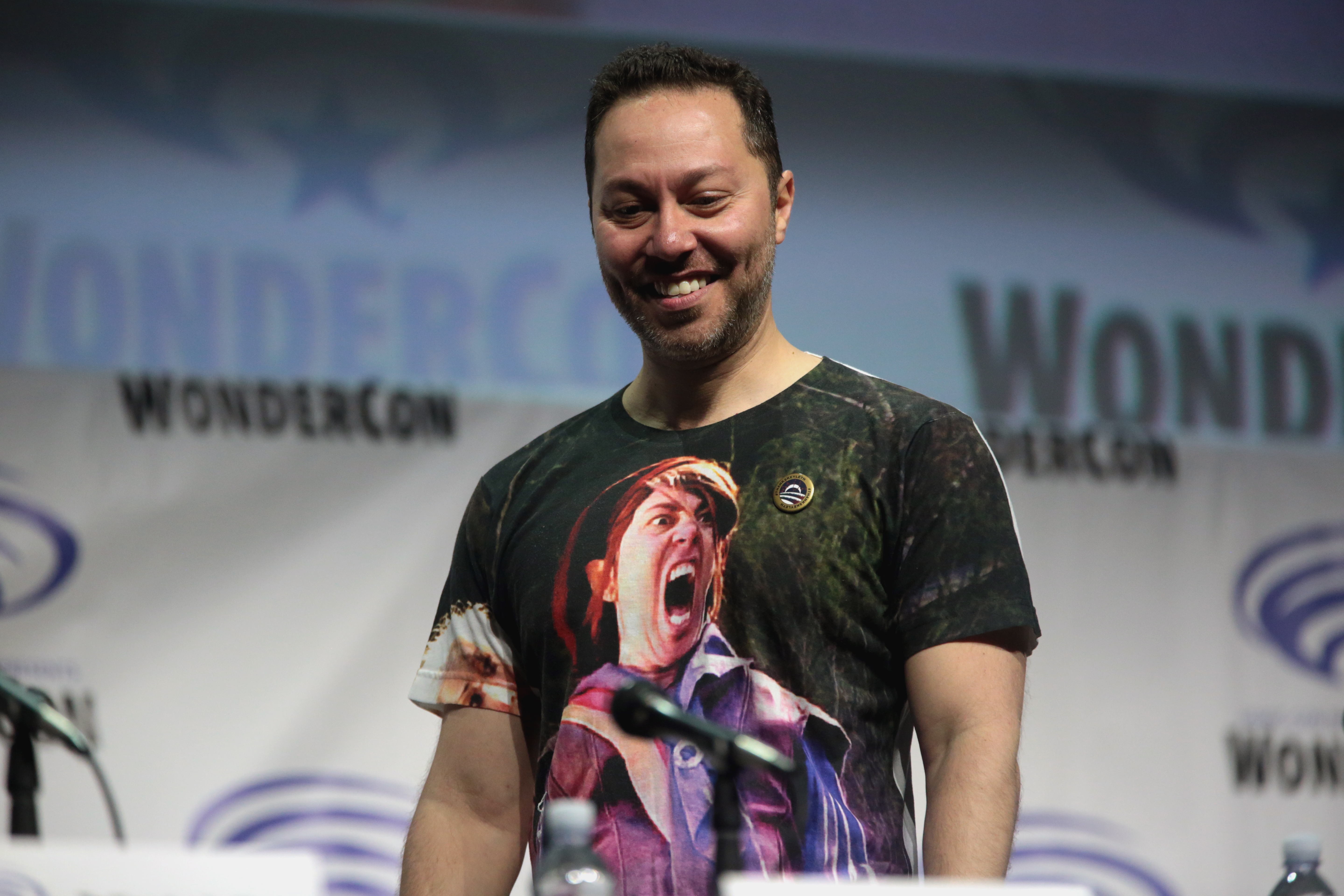 Sam Riegel speaking at the 2017 WonderCon at the Anaheim Convention Center in Anaheim, California.